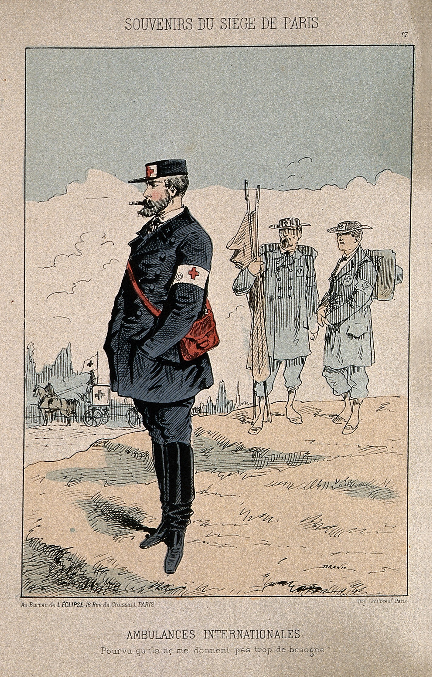 Franco-Prussian War: caricature of international ambulancemen waiting to work during the Siege of Paris. Coloured transfer lithograph by J.R. Draner. Iconographic Collections Keywords: Jules-Renard Draner